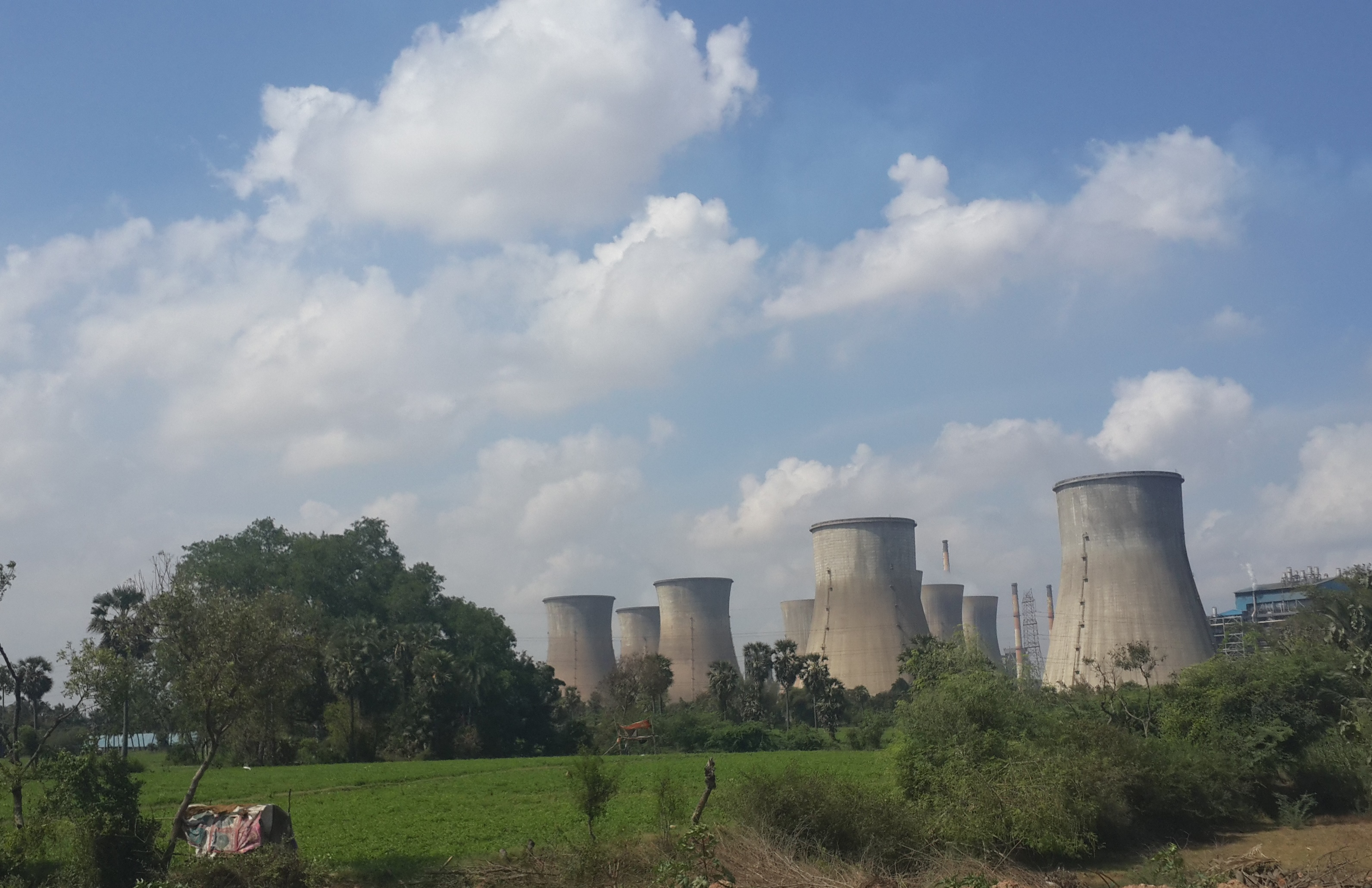 Neyveli lignite corporation boiler